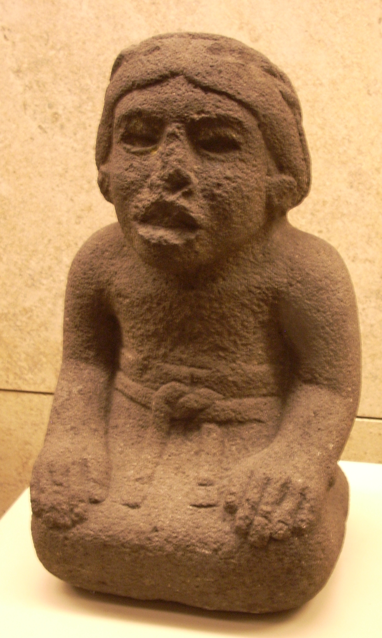 Aztec sculpture of a kneeling woman, probably a goddess, AD 1300-1521, in the British Museum, London.